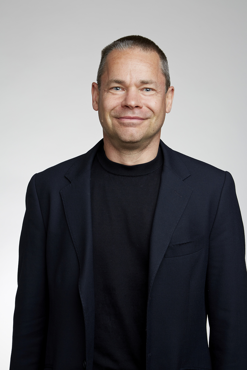 David John Wales (born 1963) FRS FRSC is a Professor of Chemical Physics, in the Department of Chemistry at the University of Cambridge. Attribution: The Royal Society